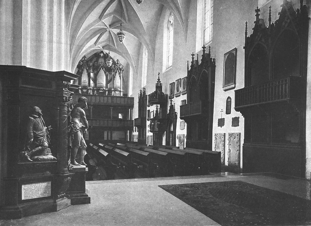 Photograph of Silbermann organ (destroyed by bombing in World War II)